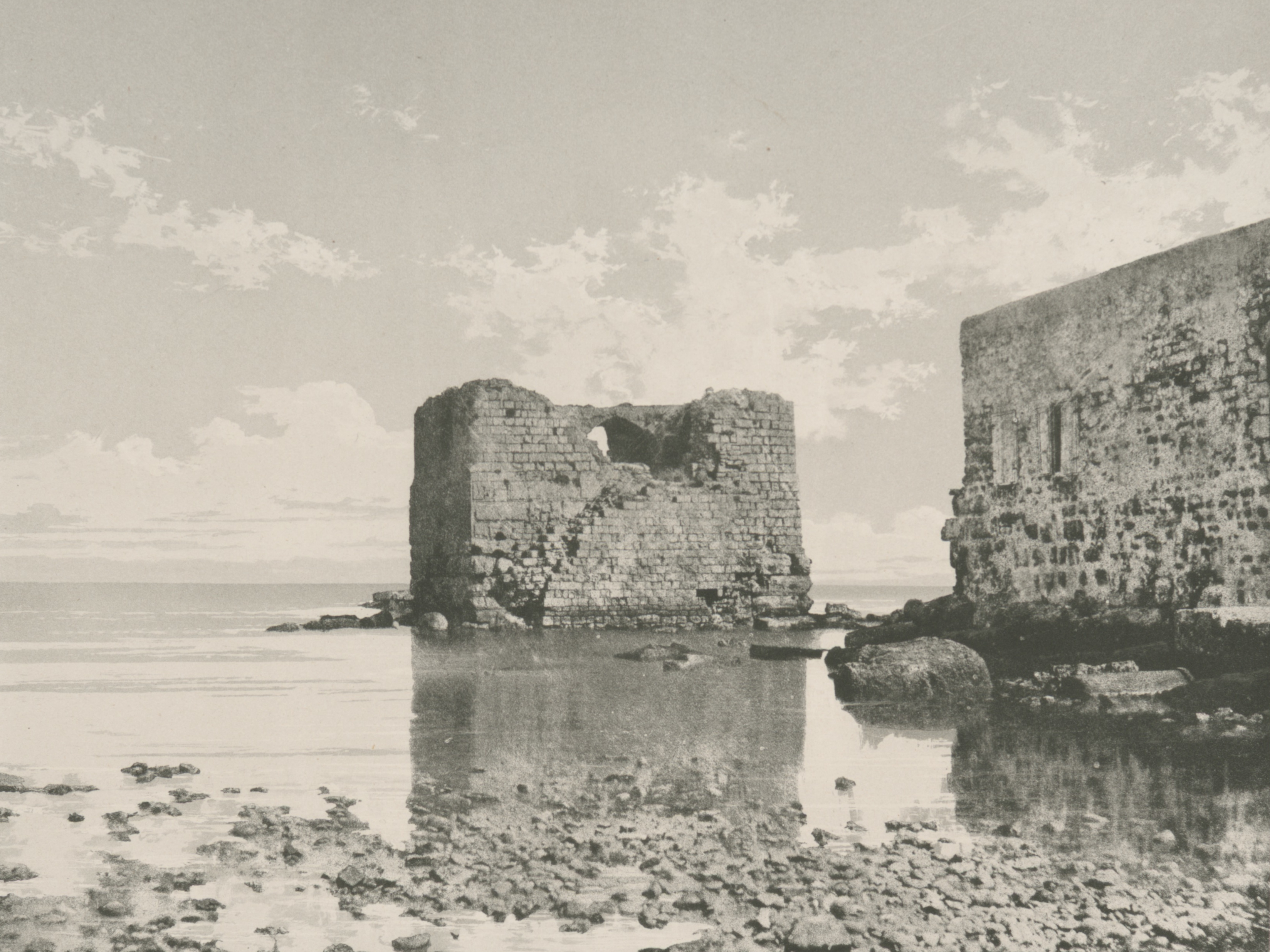 The ruins of a military tower in Tyre (Sour/Tyr) in what is now Southern Lebanon, photographed in 1874 during the Ottoman rule. It appears that in later years the Fanar lighthouse was built on top of its foundations.